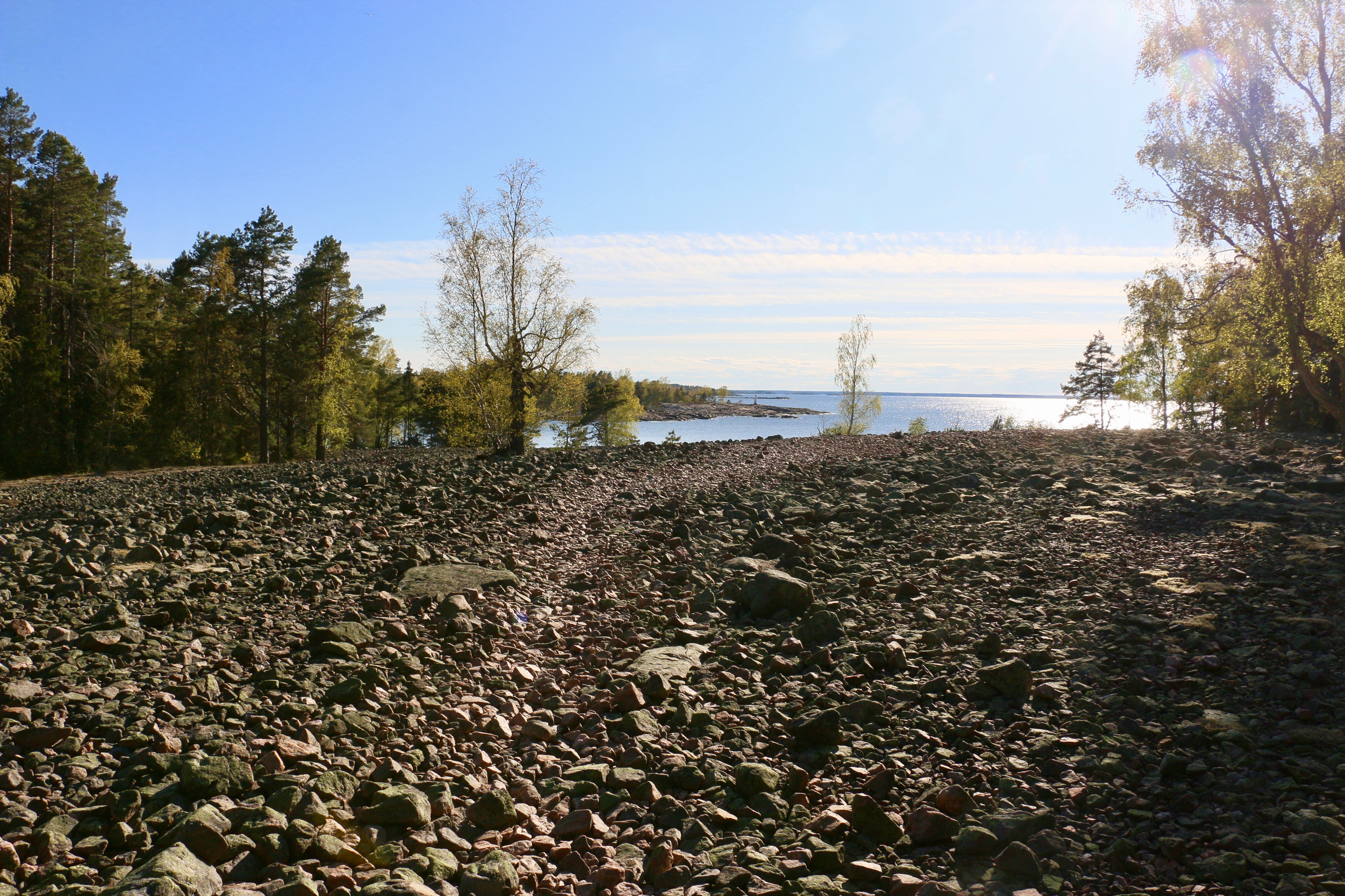 Pebble field in Kapplasse, dating from the times where this area was a coast but rose due to post-glacial rebound.